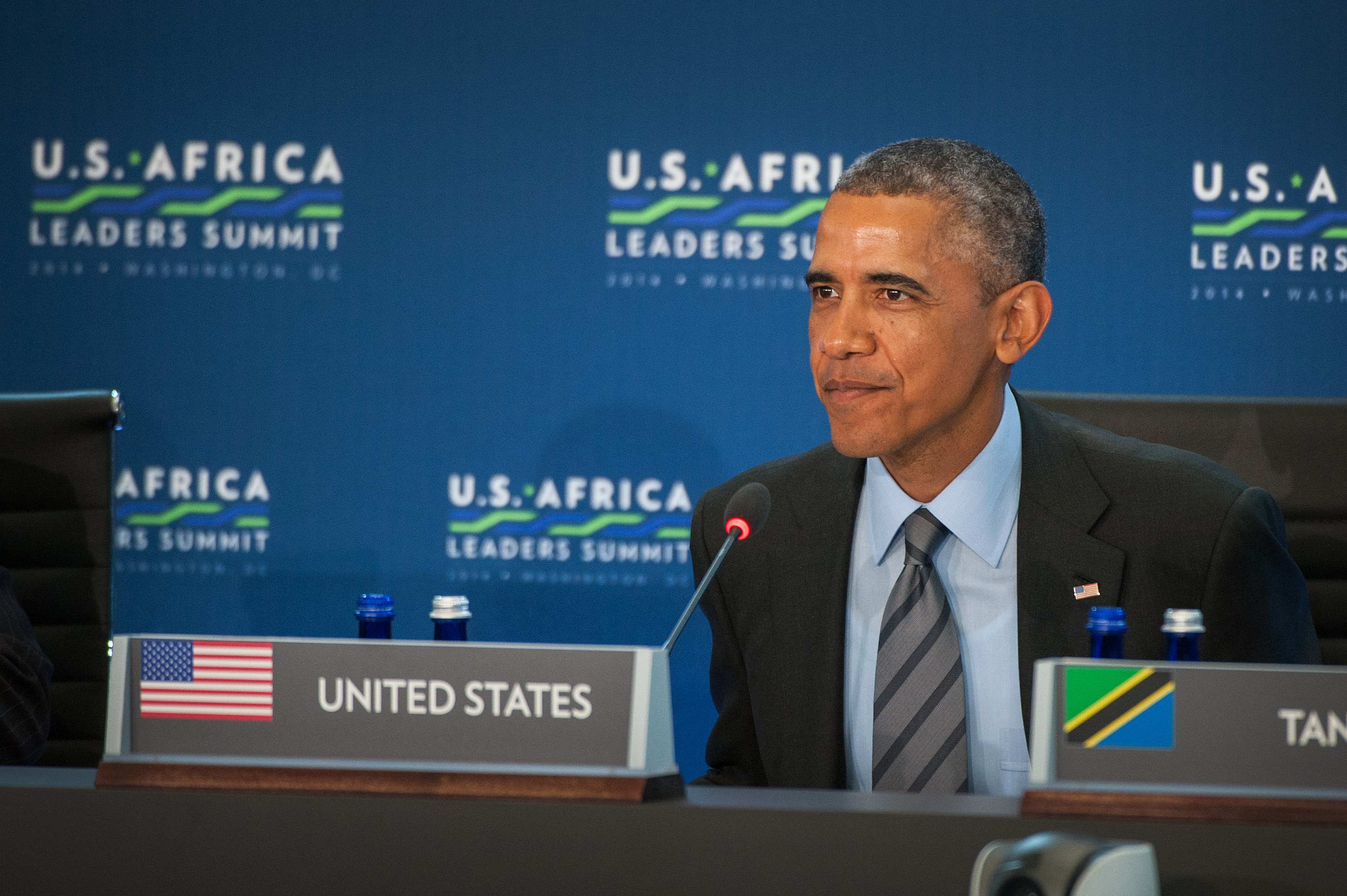 U.S. President Barack Obama delivers remarks at the U.S.-Africa Leaders Summit Session Three on “Governing the Next Generation," at the U.S. Department of State in Washington, D.C., on August 6, 2014. [State Department photo/ Public Domain]